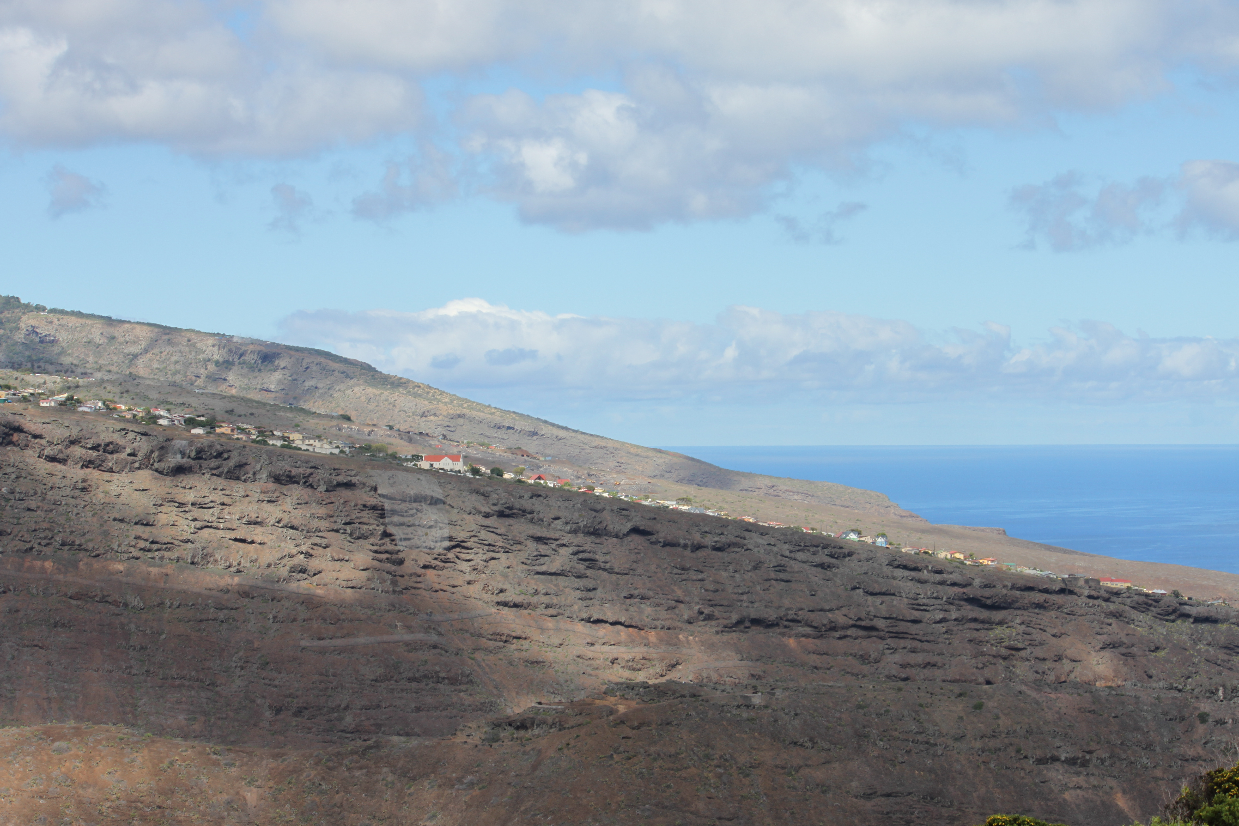 a thin strip of homes is visible along the ridge of Ladder Hill on the west side of the James Valley